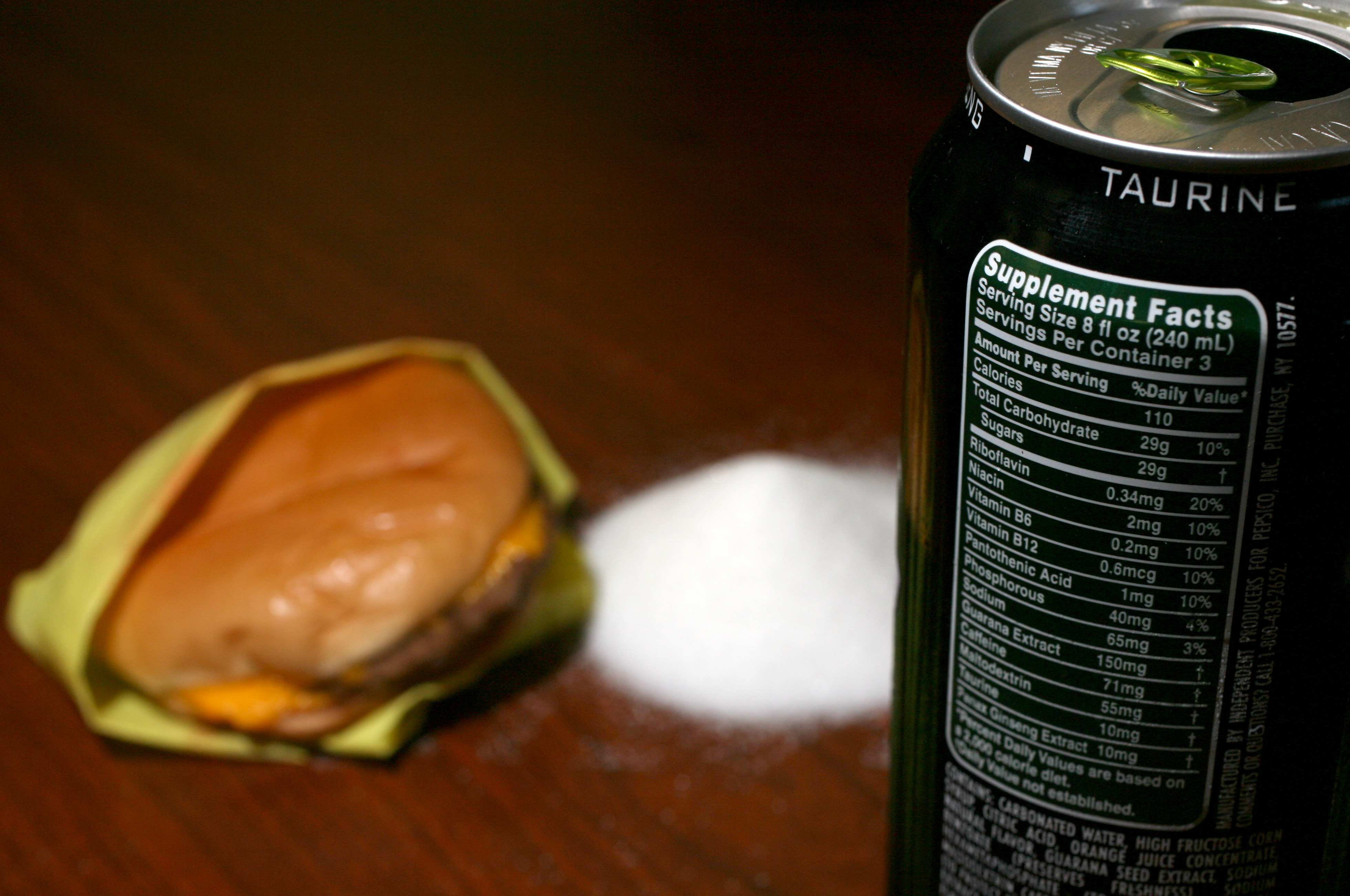 One 24-ounce energy drink has 330 calories, more than a fast-food cheeseburger, and the equivalent of 18 single-serving packets of sugar.